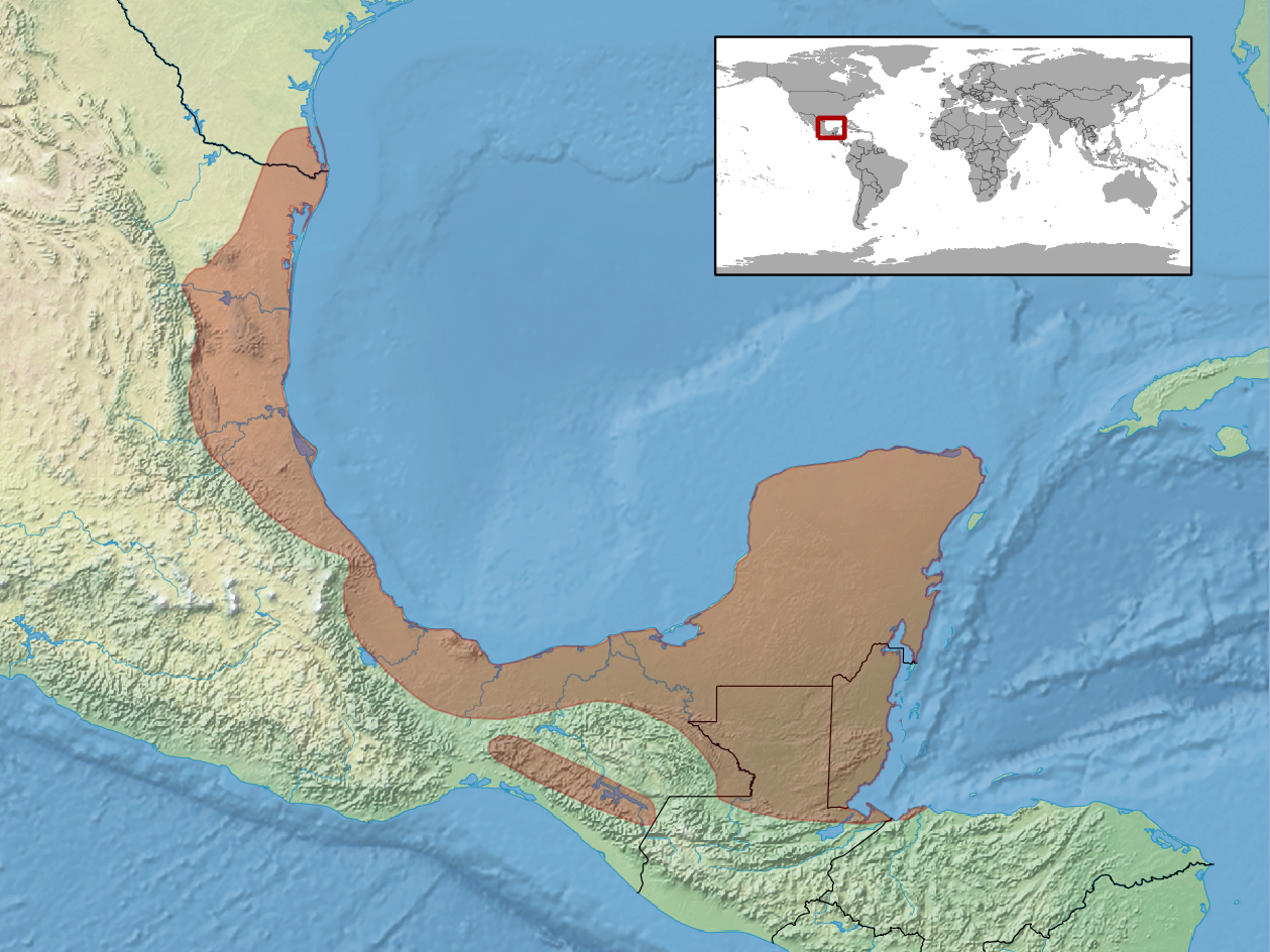 geographic distribution of Coniophanes imperialis (Native: Belize; Guatemala; Honduras; Mexico; United States)